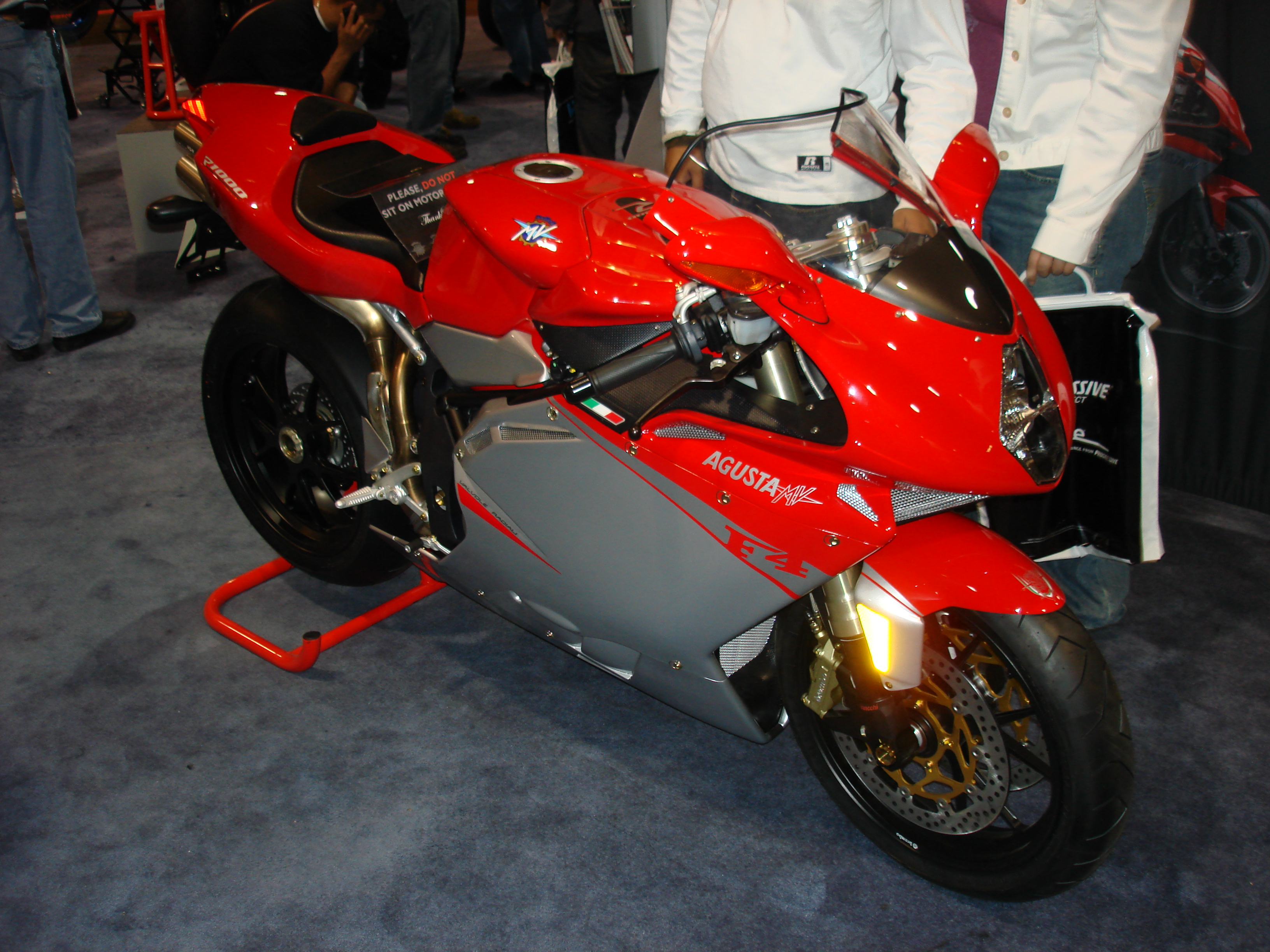 2007 2007 MV Agusta F4 1000 R on display at the 2006 International Motorcycle Show in Long Beach, CA. Camera used was a Sony Cyber-shot DSC-W100.